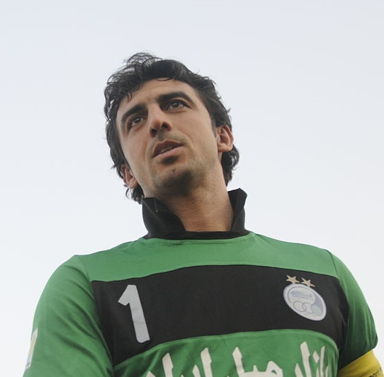 Seyyed Mehdi Rahmati